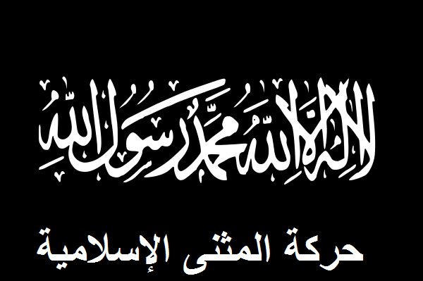 This is the flag the group used when active